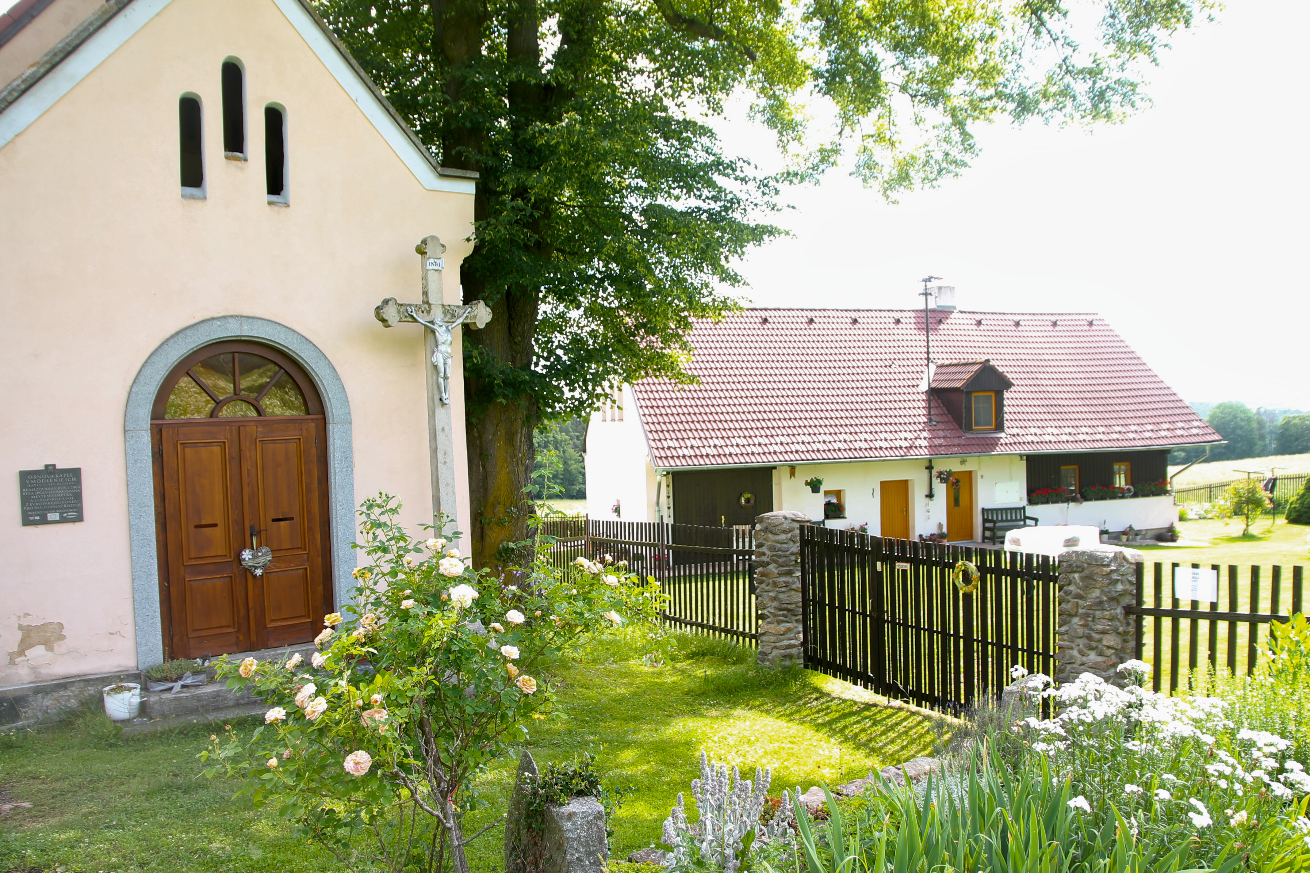 Modlenice, Vimperk